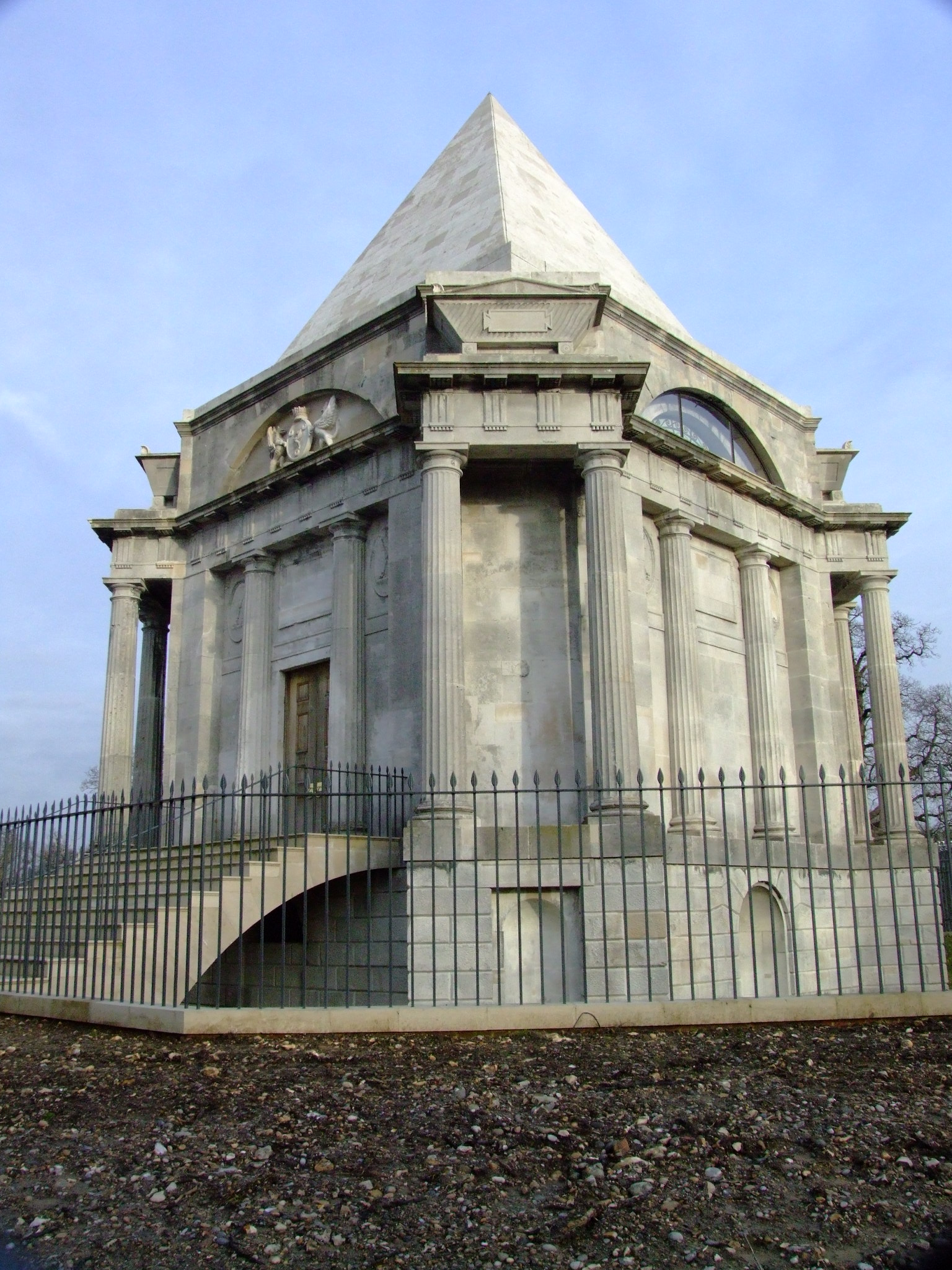 The Darnley Mausoleum through the bars of the outer protective fence - OpenStreetMap (Info)